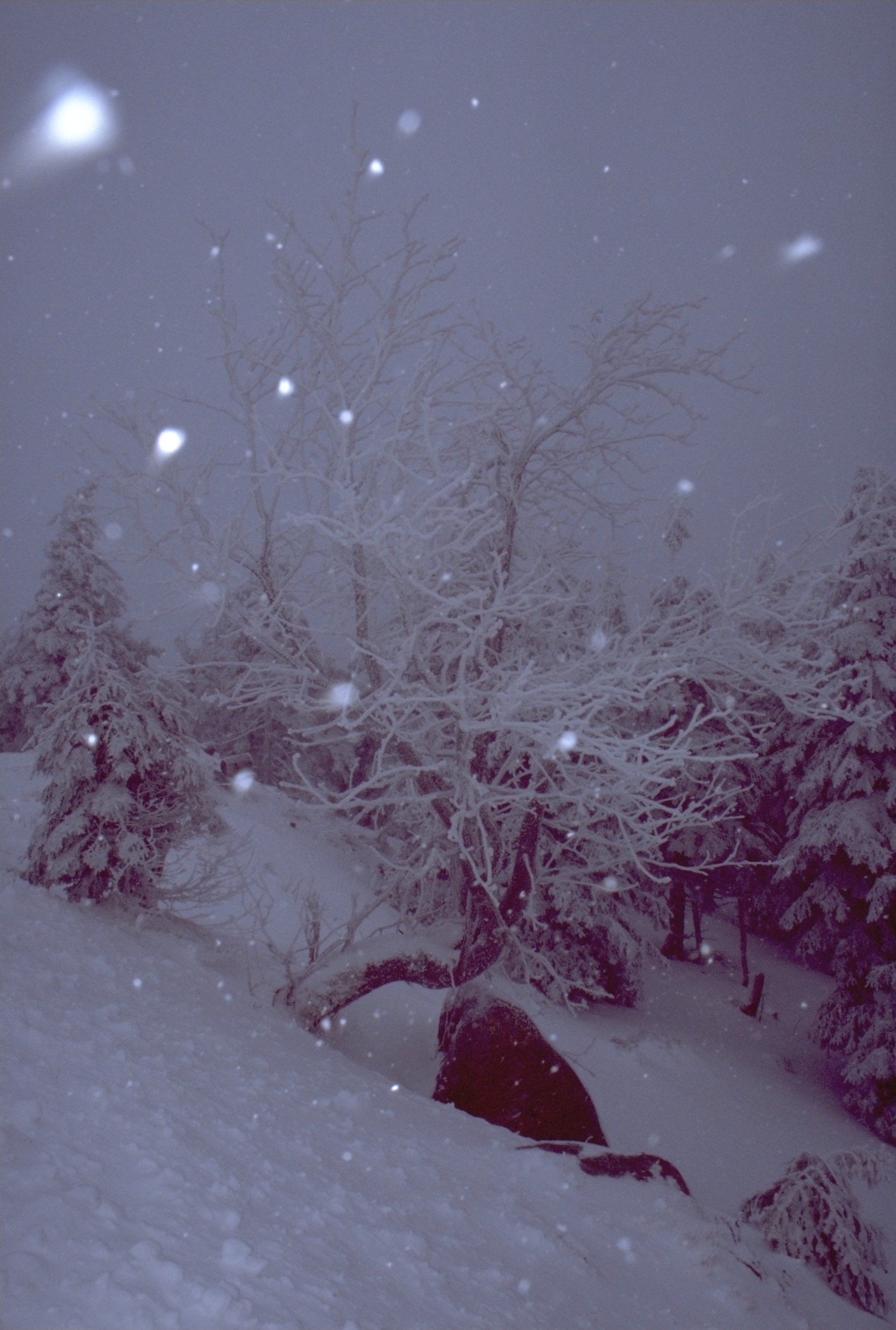 Near top of mount Brocken in snow storm , Harz, Germany Photo was taken using the following technique: Film: Kodak E200 Lens: 28-80 Filter: Body: Minolta 600si Support: Image with Information in English Bild mit Informationen auf Deutsch